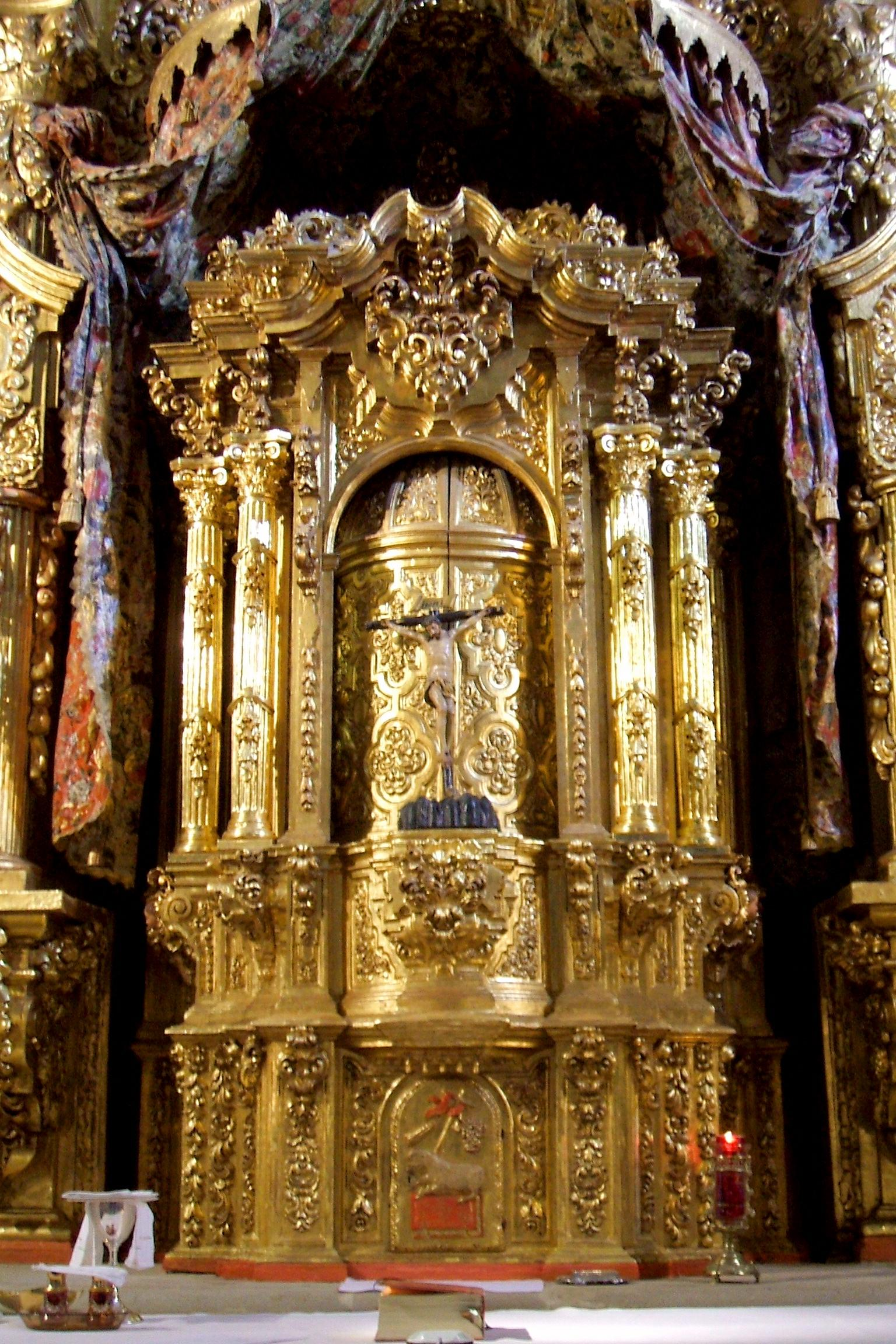 Sagrario barroco del retablo mayor de la iglesia del Convento de la Encarnación (MM Carmelitas Descalzas) de Baeza (Jaén, Andalucía, España)